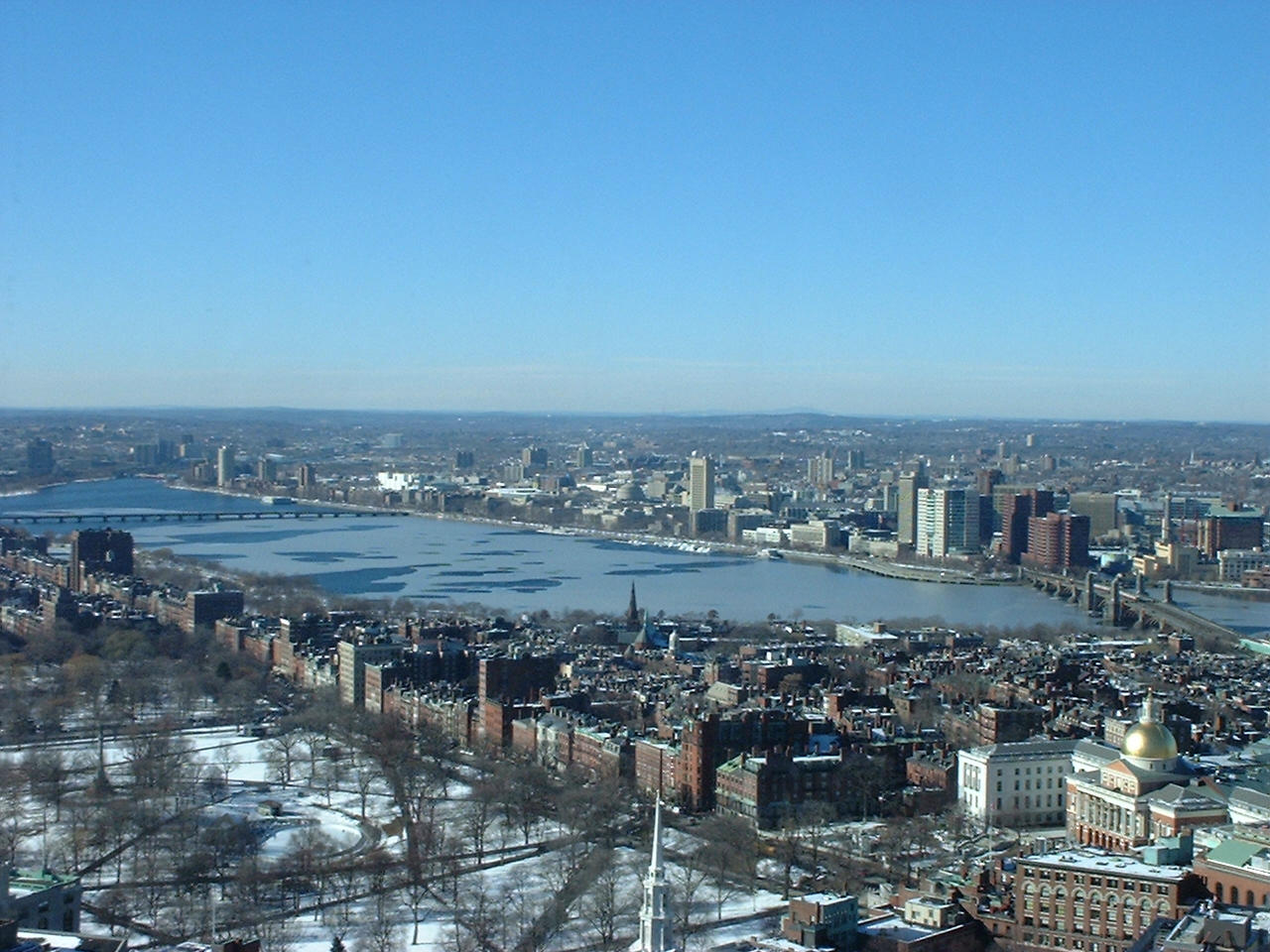 A view of the Charles River basin showing Boston and Cambridge, Massachusetts and the Longfellow and Harvard Bridges. The Massachusetts State House is lower right and MIT lines the far side of the basin.